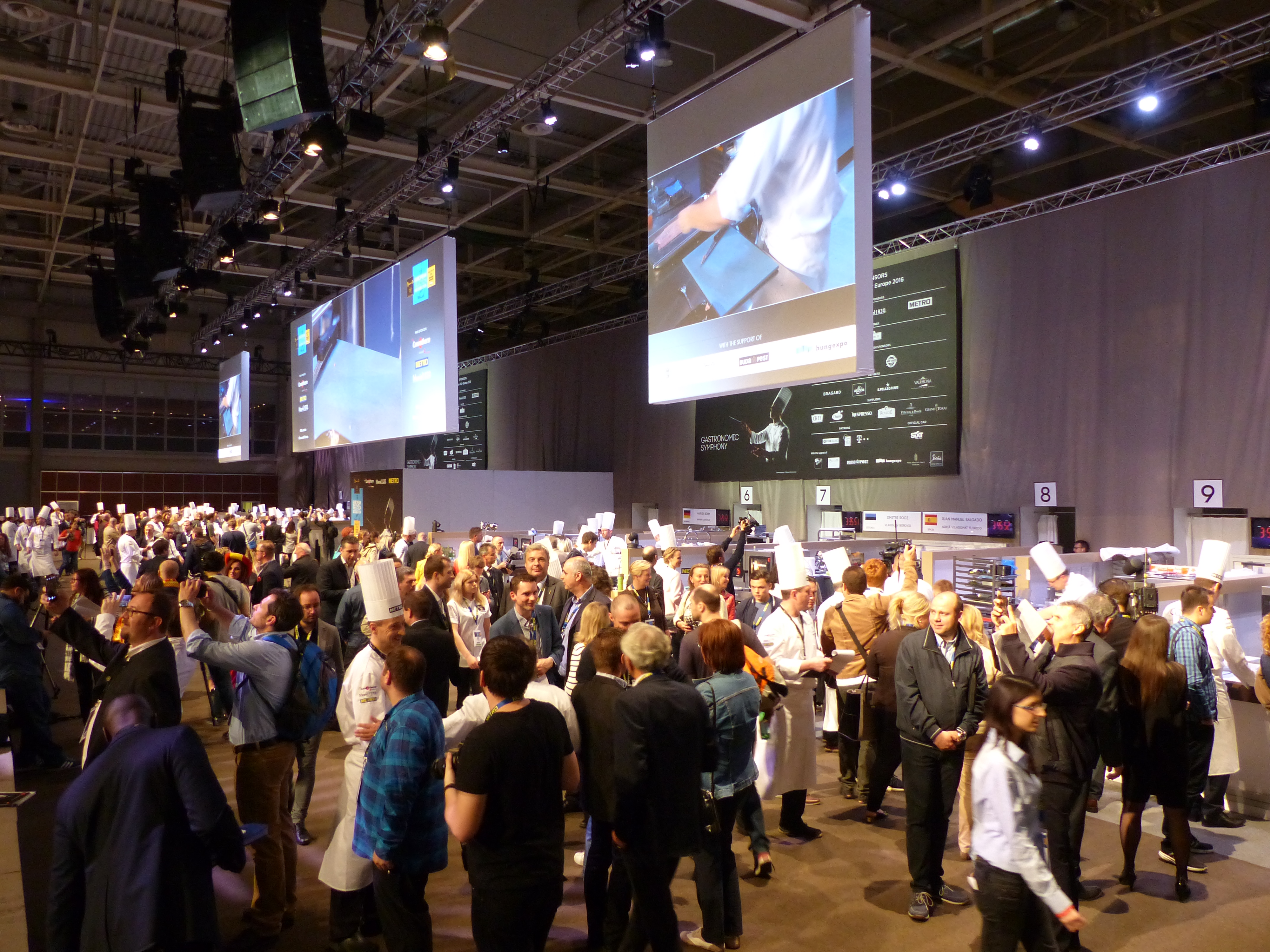 Bocuse d'Or Europe Budapest 2016. Taken on the 10th of May, 2016. Hungexpo, Budapest, Hungary. Bocuse d'Or – Selection Europe – Budapest. Sources